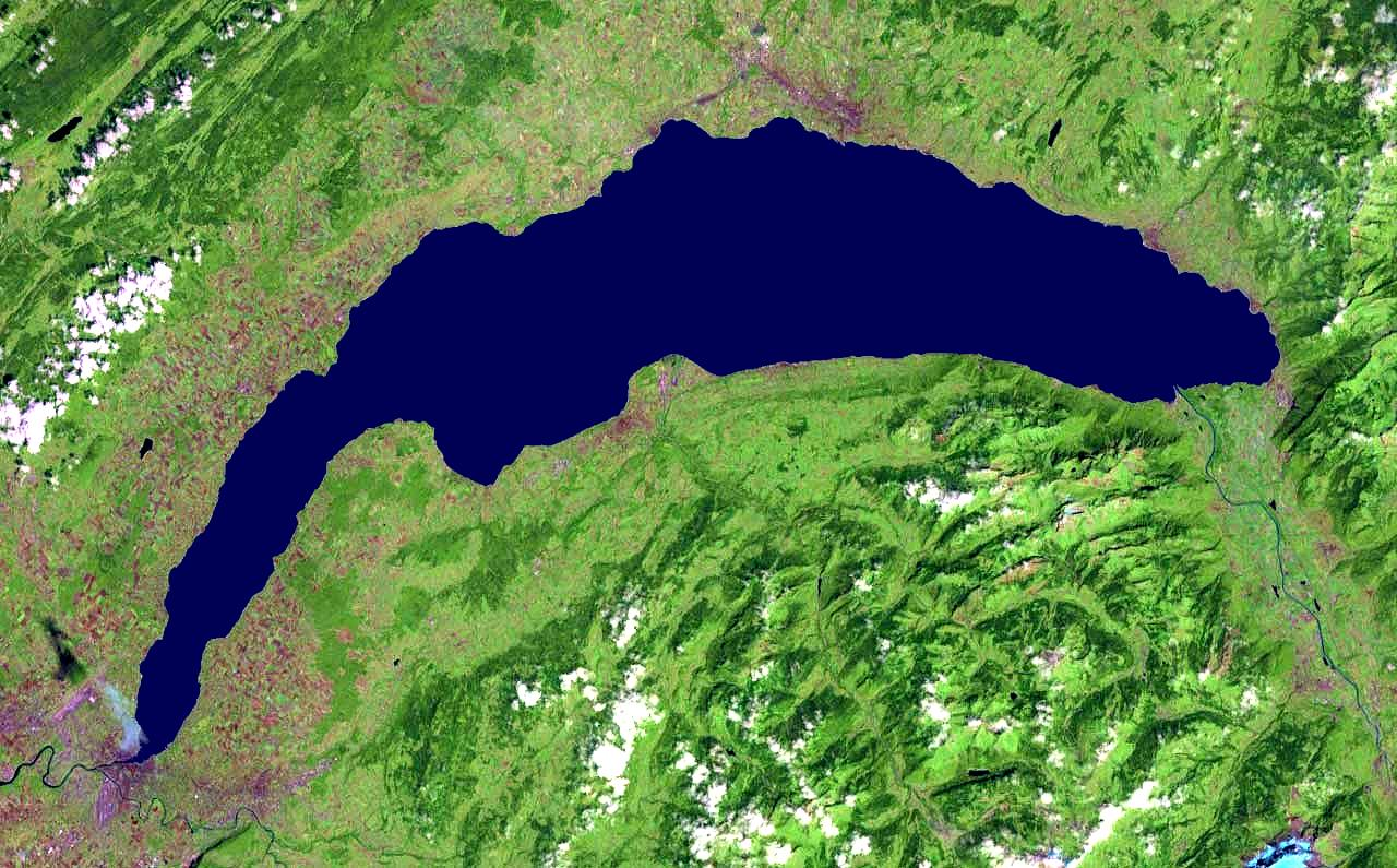 Satellite view of Lake Geneva during full summer time.